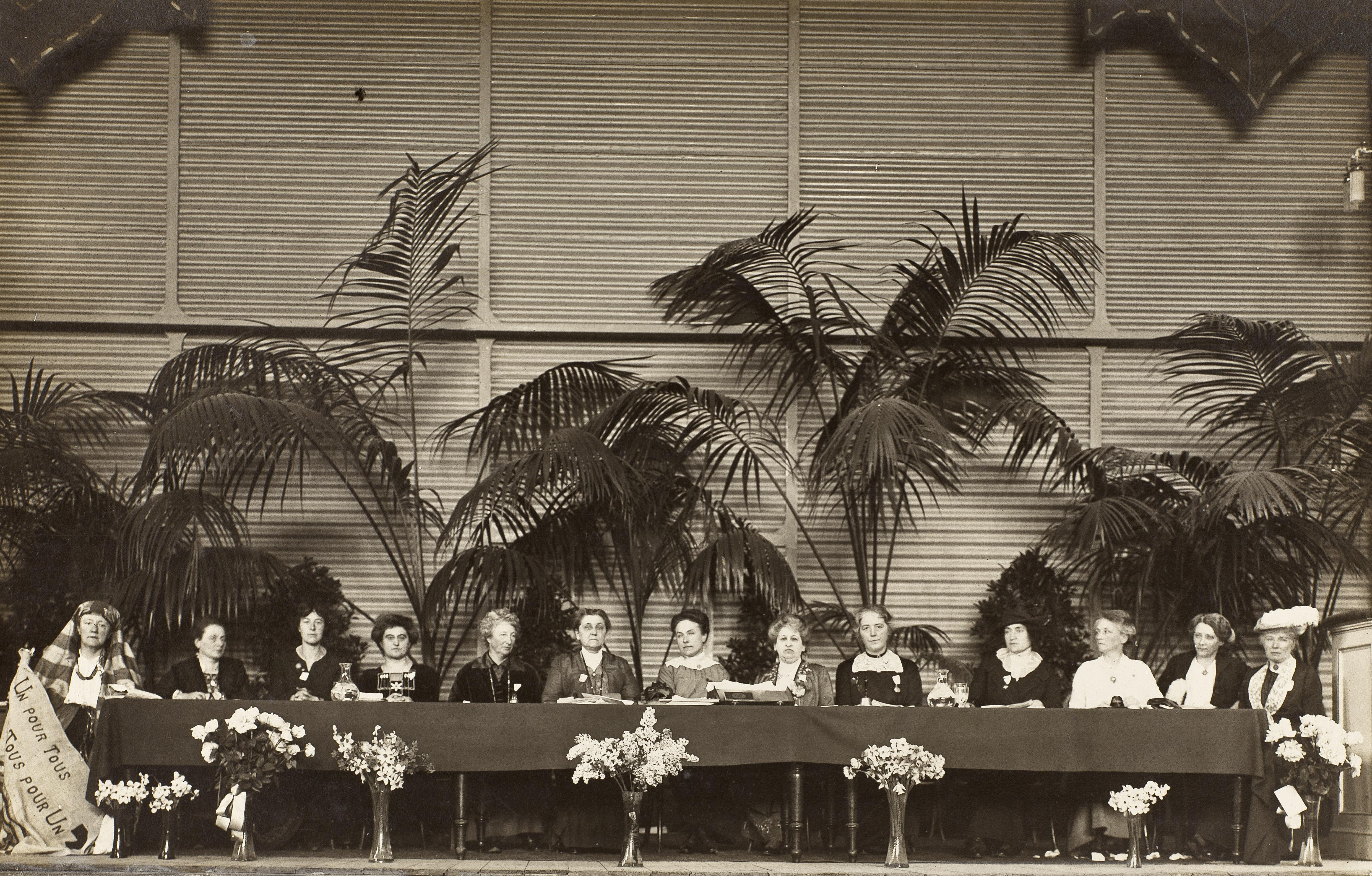 WILPF/2011/18